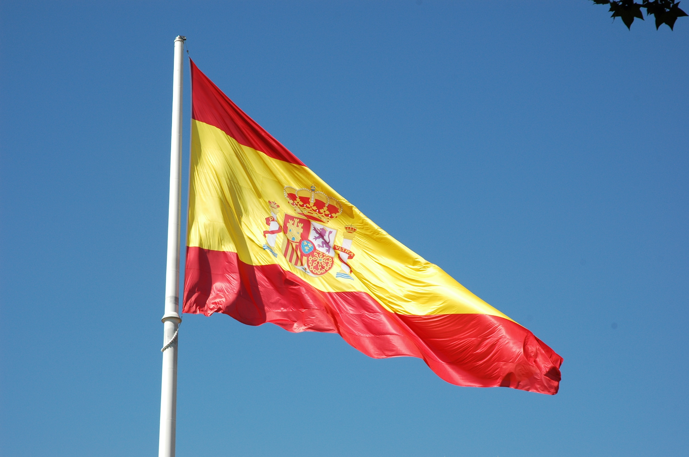 National flag of Spain at Plaza de Colón ("Columbus Square") in Madrid.